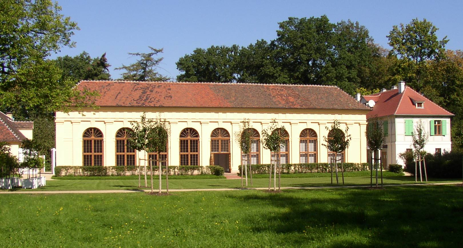 Orangery in Dessau-Waldersee in Saxony-Anhalt, Germany